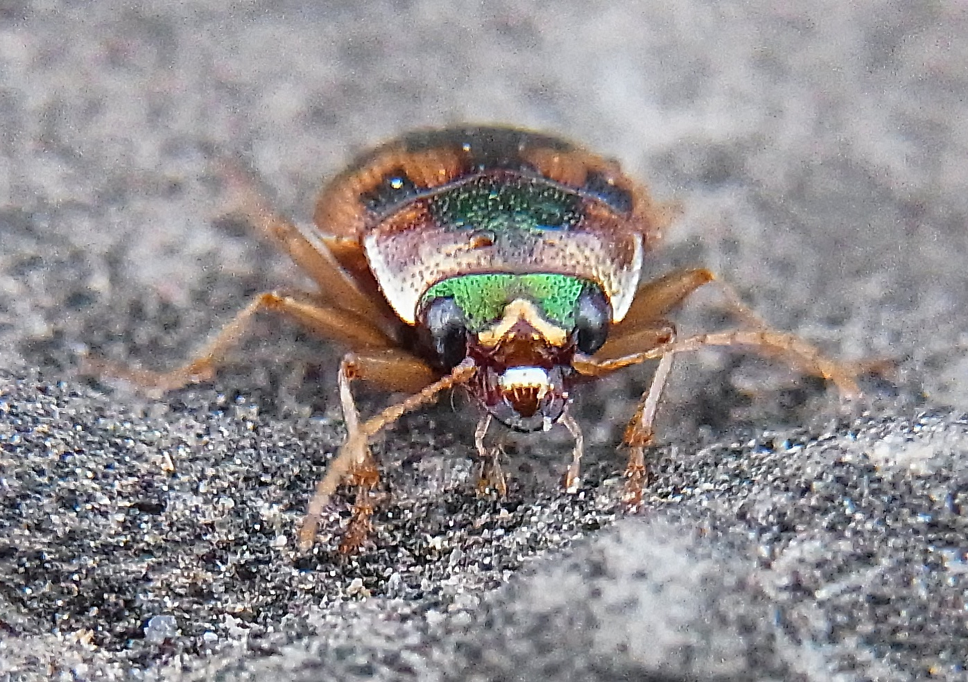 Omophron limbatum from Northern Spain, Vale de Solana east of Jaca at 2013-06-30